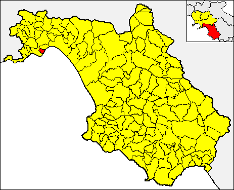 Locator map of the municipality of Cetara (red) within the Province of Salerno